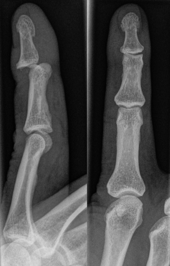 Joint dislocation DIP of D2.